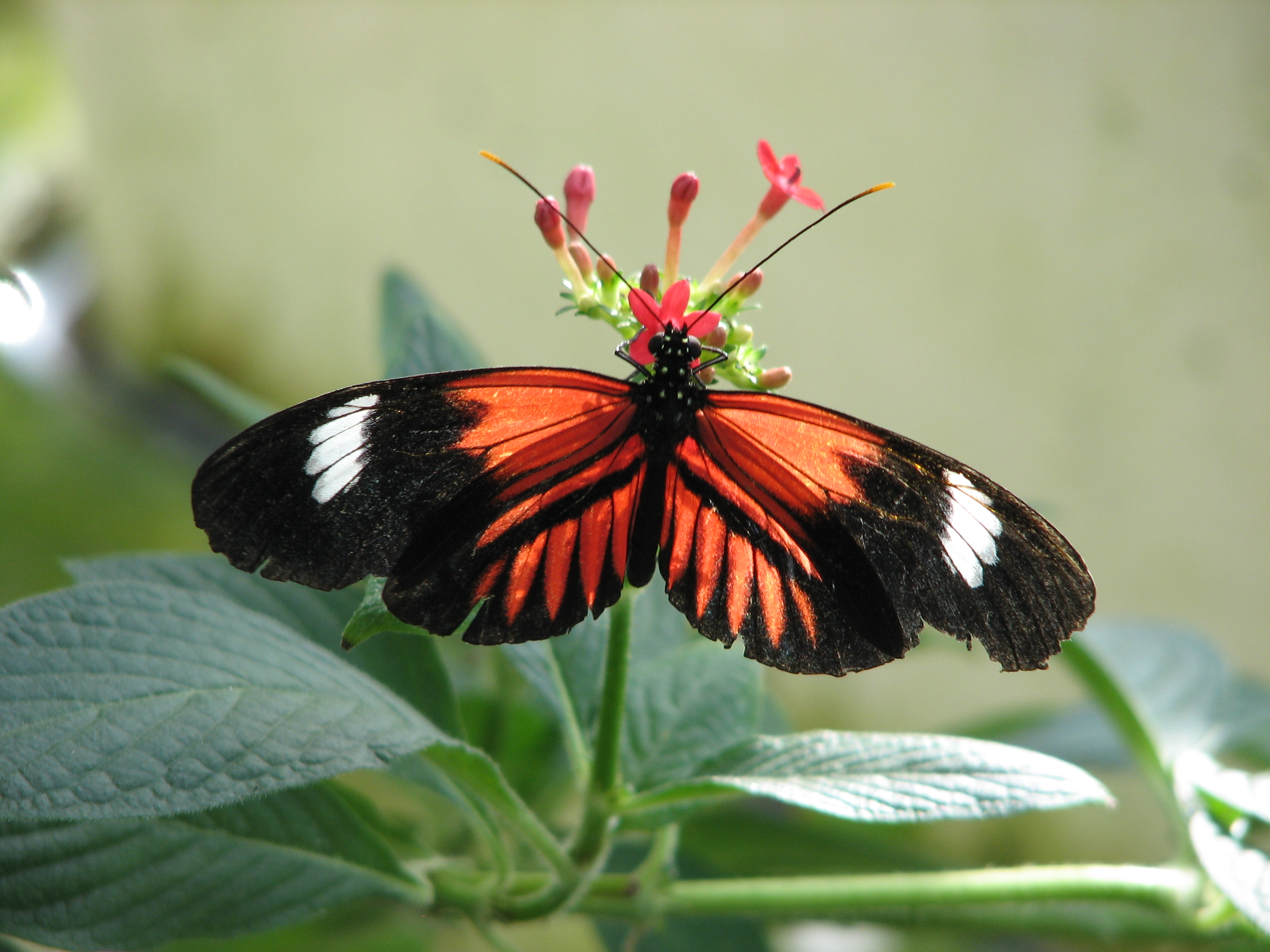 Heliconius_melpomene